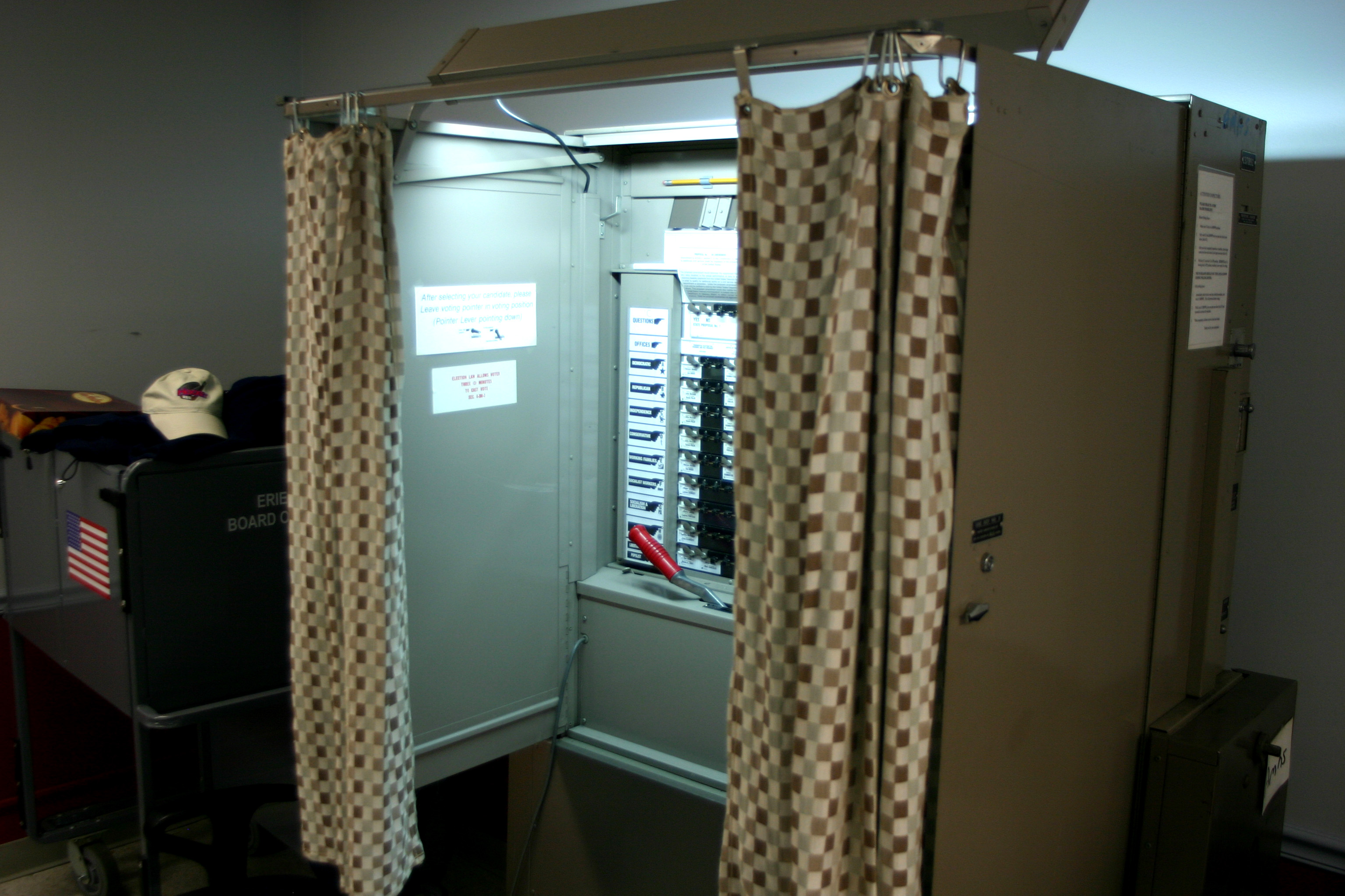 This is a picture of an American voting booth. It was taken on the University at Buffalo's north campus.